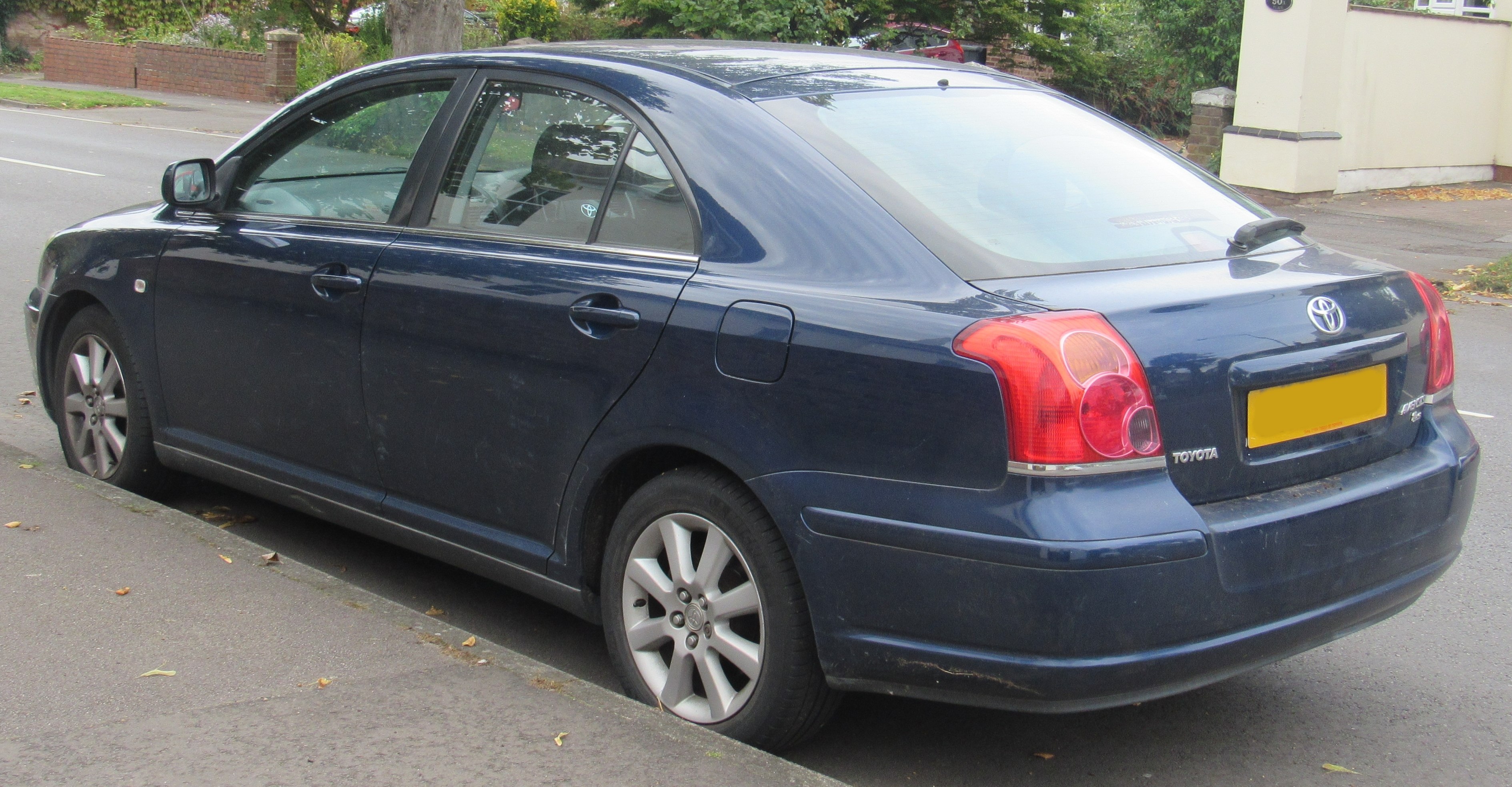 2003 Toyota Avensis T3-S 1.8 Rear Taken in Leamington Spa